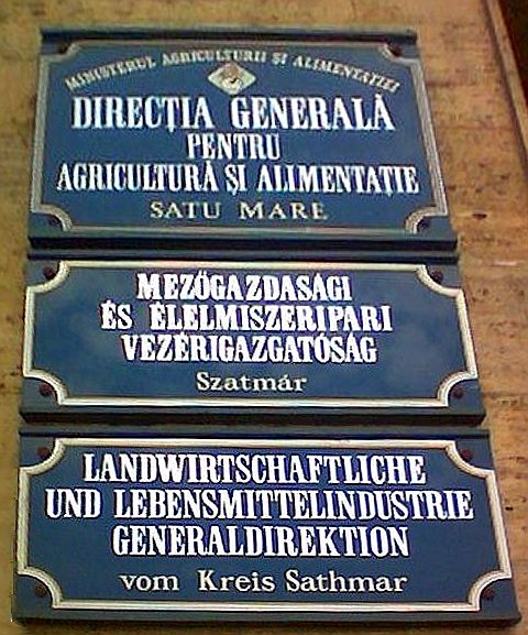 Trilingual sign. "Directorate of Agriculture and Food Industry".